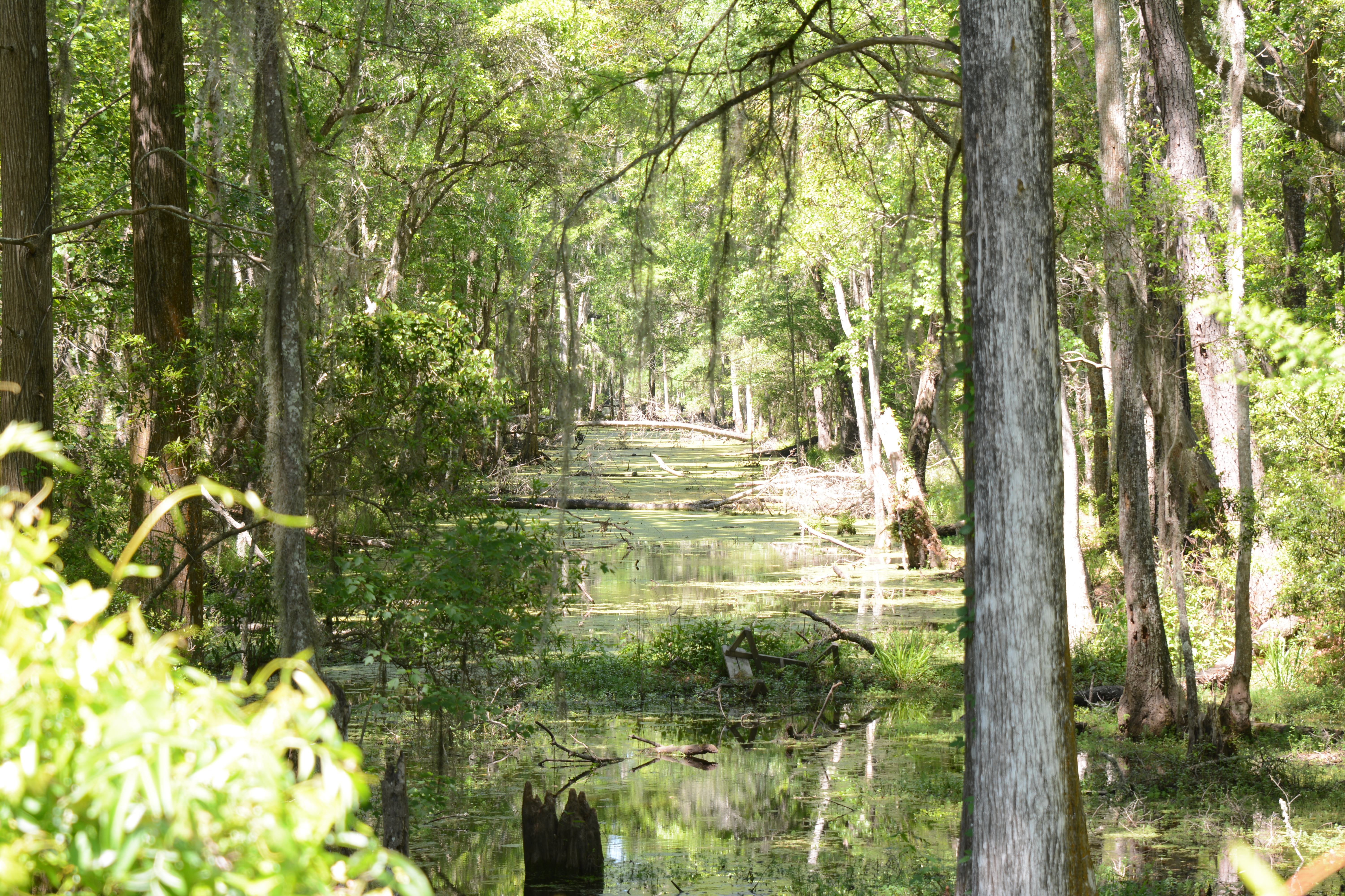 Brunswick-Altamaha canal, Glynn County, Georgia, US